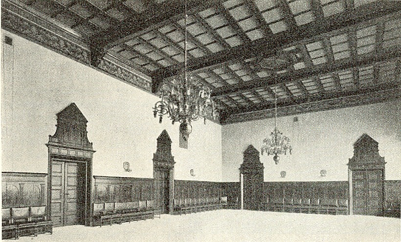 The "nation hall" (meeting and banquet hall) of Norrlands nation, student society at Uppsala University in Sweden.